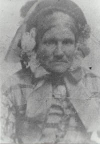 Hannah Green, wife of Burr Caswell c. 1866